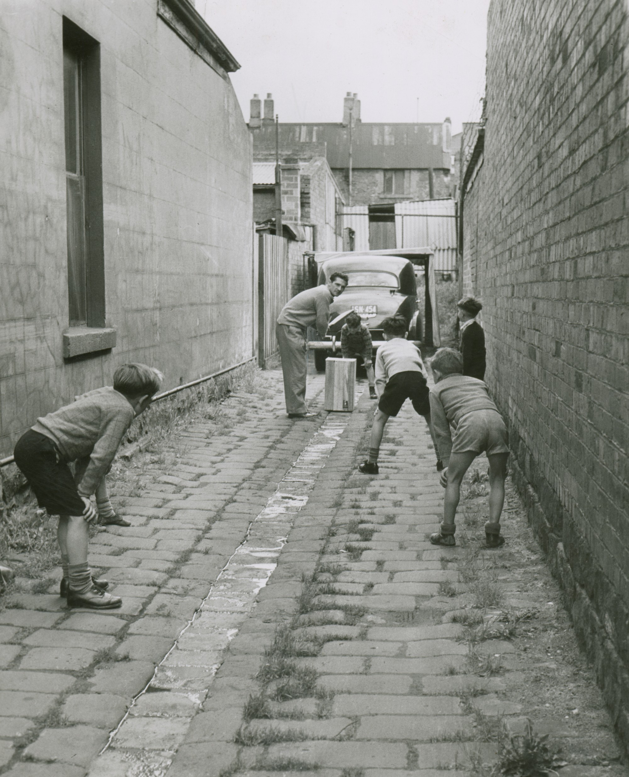 Lane next to Harvey home [where Neil and his brothers learned to play cricket. The photo shows Harvey batting with some local boys in the laneway next to his family home -- Bluestone laneway with car parked at far end.